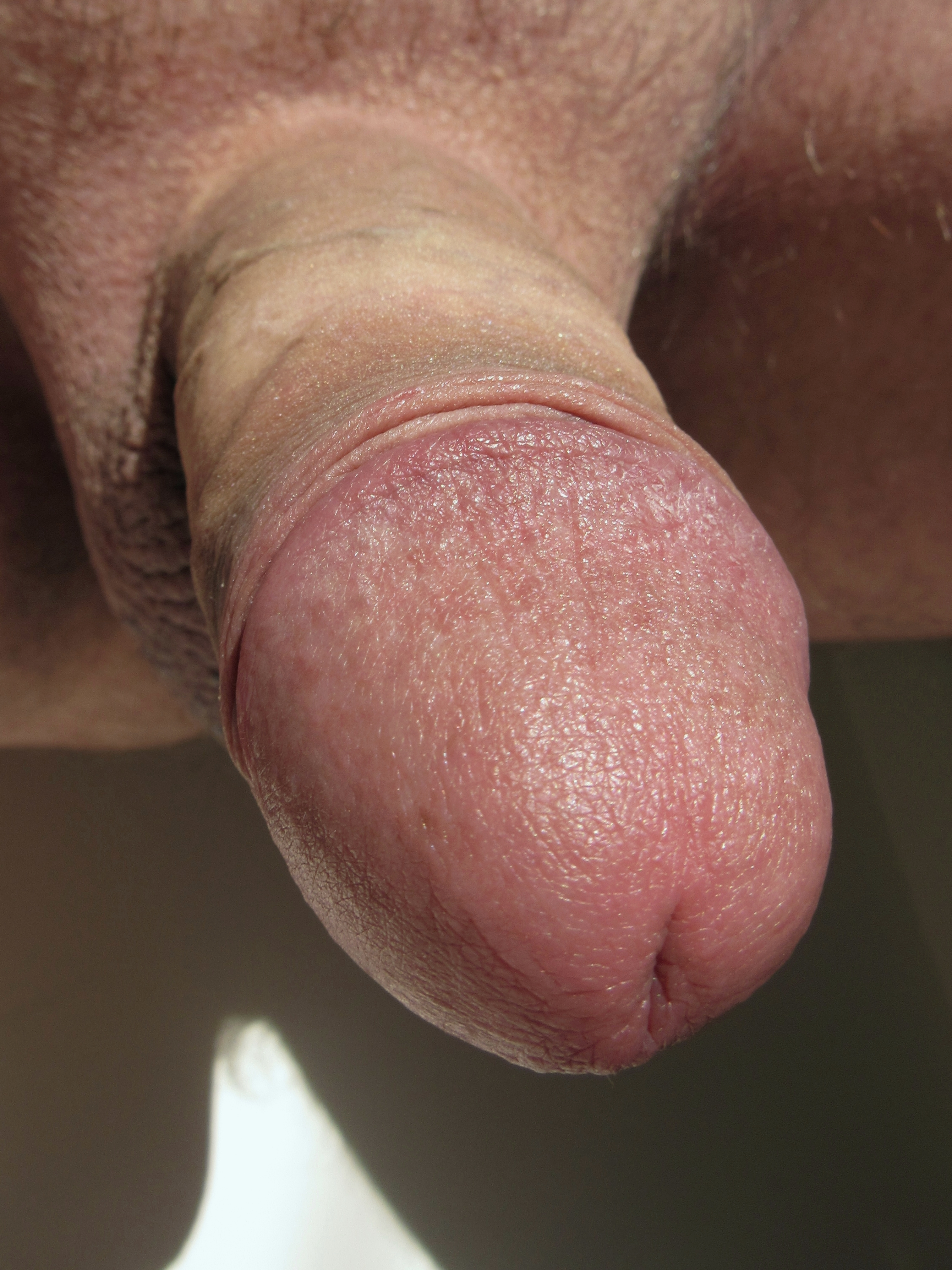 Close-up of human glans penis with urinary meatus